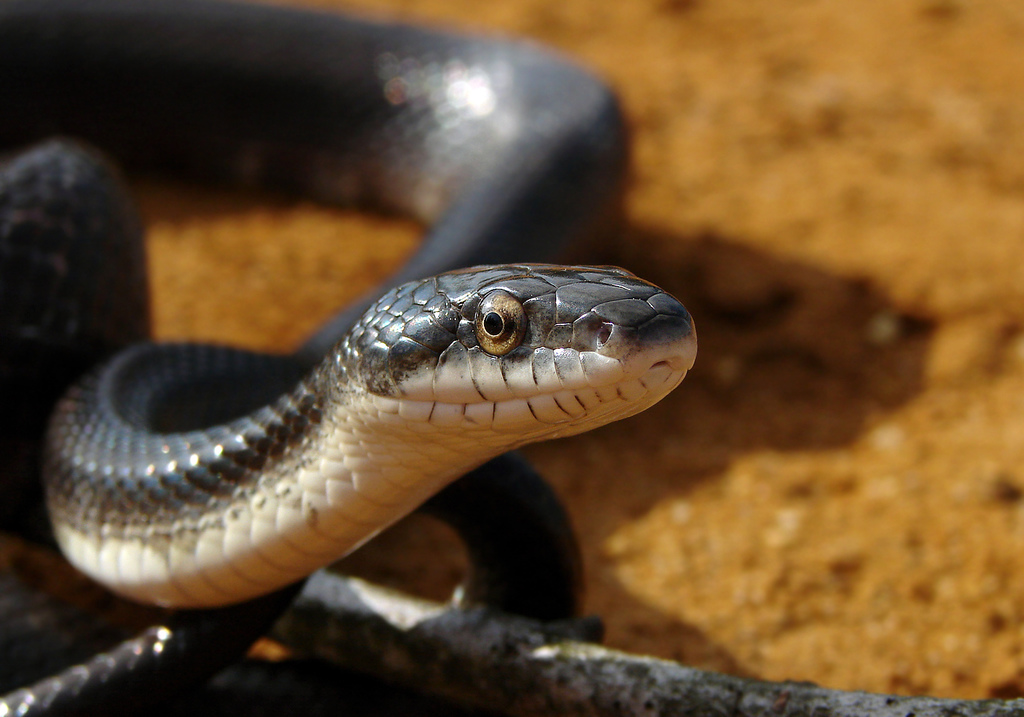 Elaphe obsoleta - A black rat snake (Elaphe obsoleta and Pantherophis obsoletus), taken on a softball field in Columbia, Maryland, in 2006.